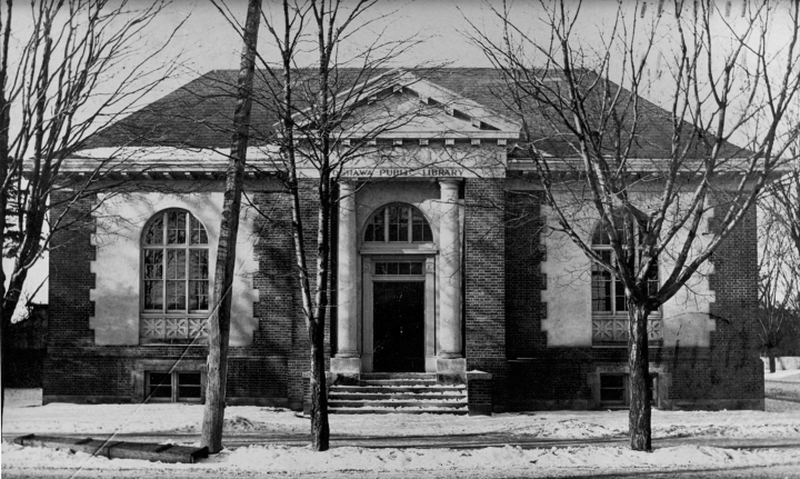 Front view of the building that was completed in 1909 through financial assistance from the Carnegie Fund. Property at the southwest corner of Simcoe Street South and Athold Street West was purchased in 1906 from Dr. Coburn, and the Carnegie Fund contributed $12,000.00 for a new library, which was completed in 1909.